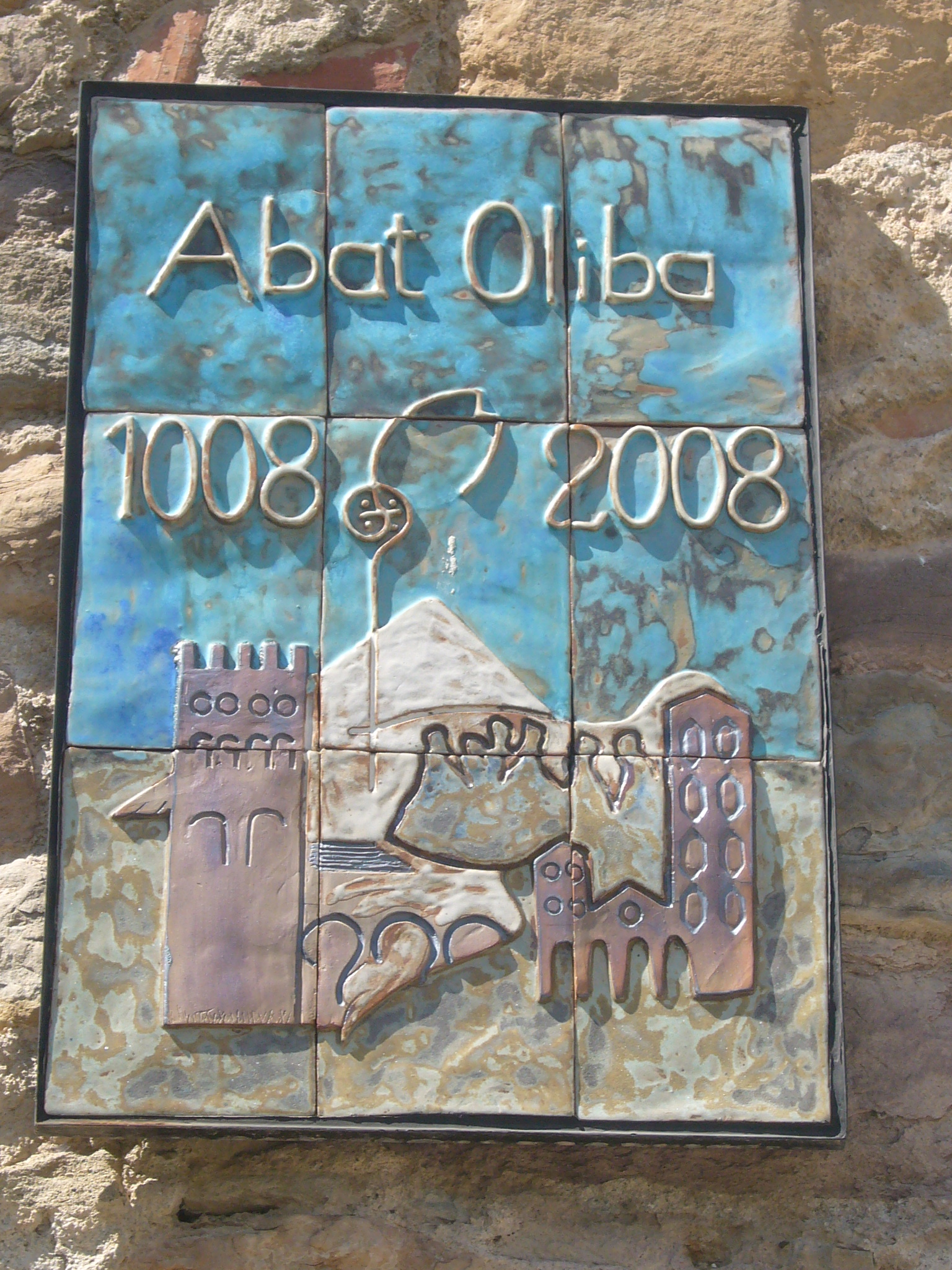 Church of Sant Pere de Ripoll